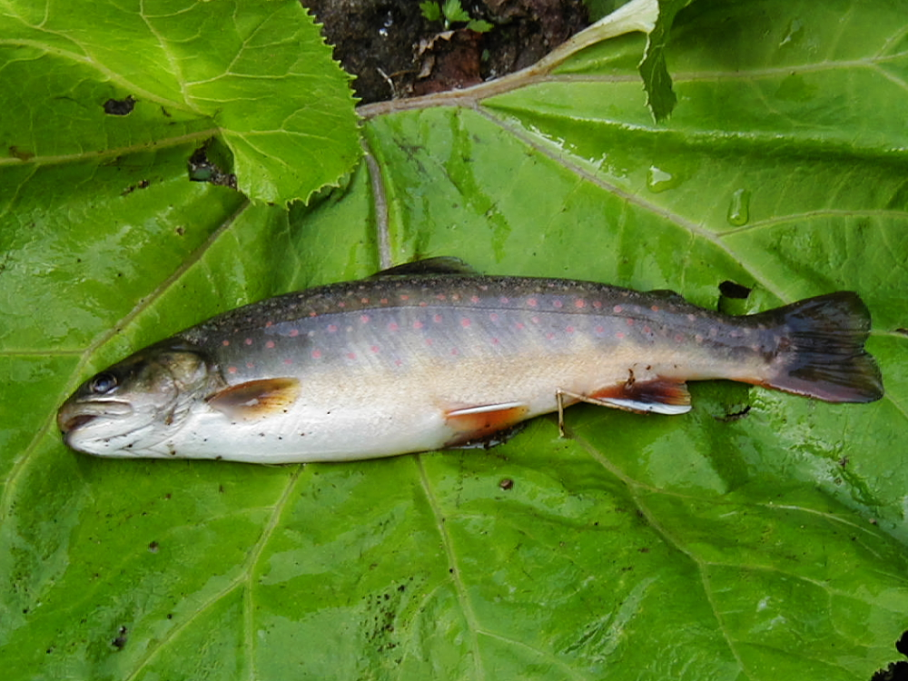 Salvelinus malma malma